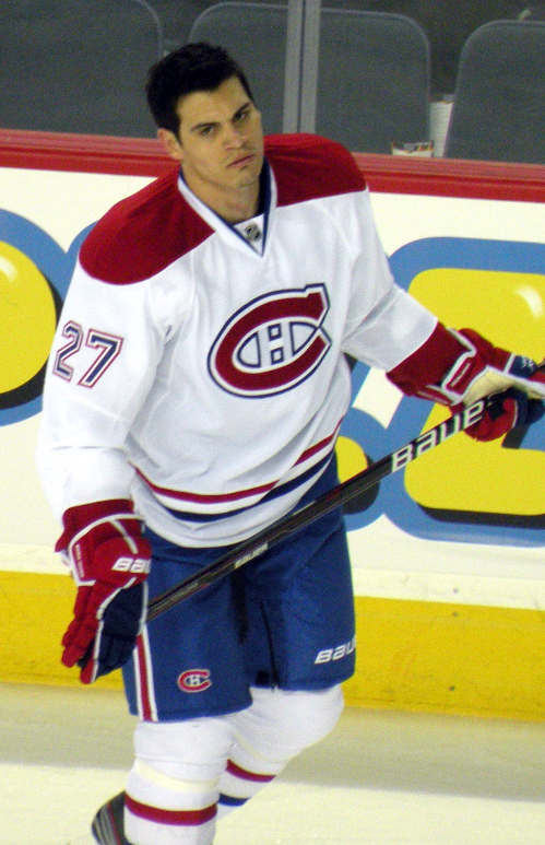 Montreal Canadiens forward Rene Bourque prior to a National Hockey League game against the Calgary Flames.